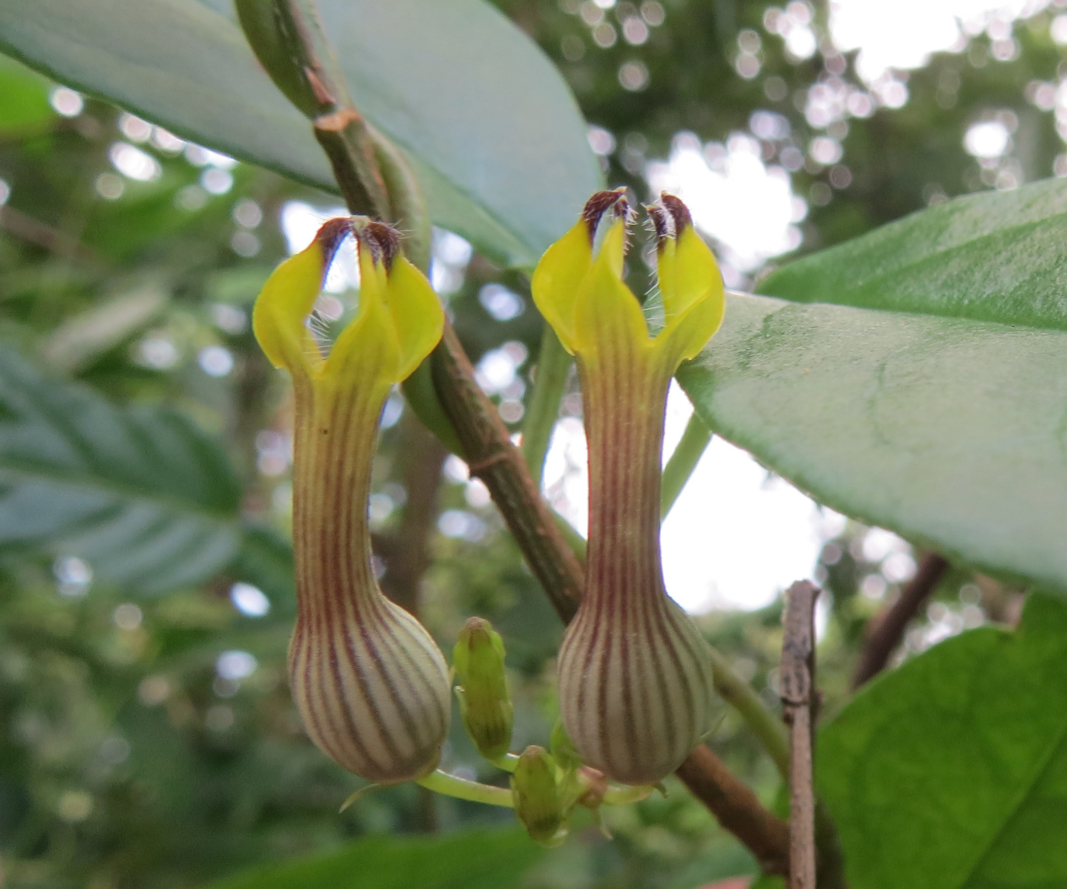 Ceropegia candelabrum